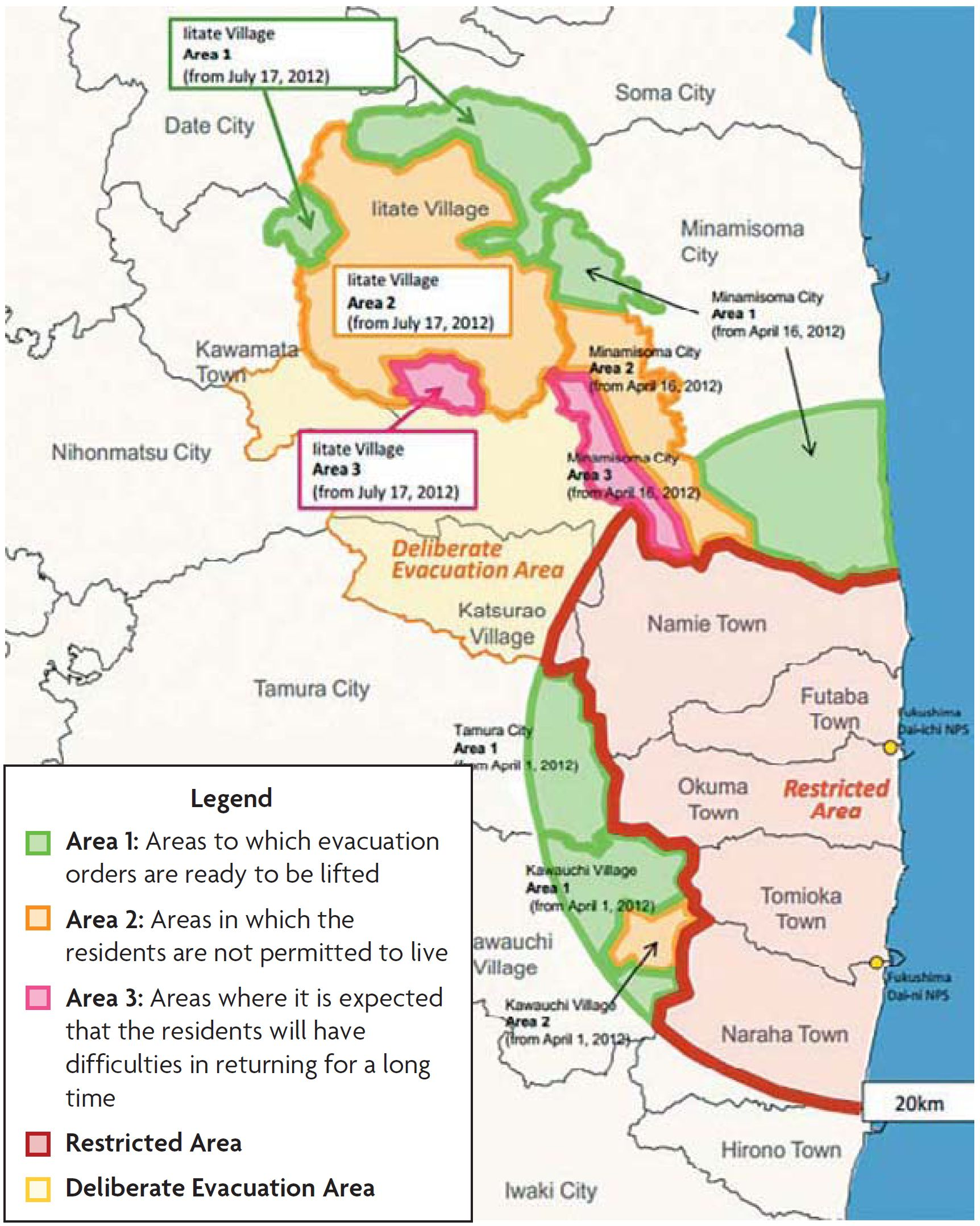 Source: Mikio Ishiwatari, Satoru Mimura, Hideki Ishii, Kenji Ohse, Akira Takagi: "The Recovery Process in Fukushima", in: Federica Ranghieri, Mikio Ishiwatari (editors): Learning from Megadisasters - Lessons from the Great East Japan Earthquake, World Bank Publications, Washington, DC, 2014, ISBN (paper): 978-1-4648-0153-2, ISBN (electronic): 978-1-4648-0154-9, Chapter 36, pp. 331-343, here: p. 335, Map 36.1 "Rearrangement of evacuation zoning" "Source: Ministry of Economy, Trade and Industry.". License: Creative Commons Attribution CC BY 3.0 IGO.